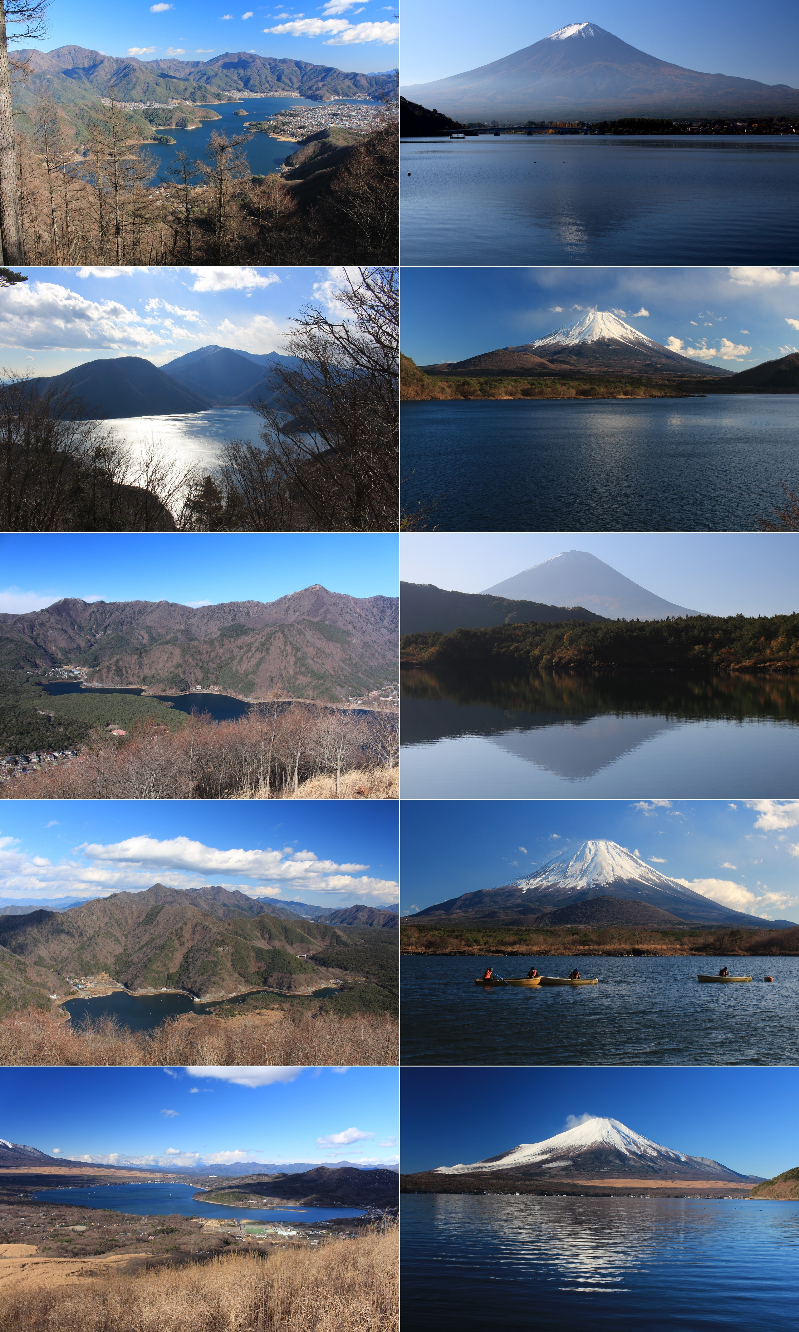 Mount Fuji seen from Fuji Five Lakes (Lake Kawaguchi, Lake Motosu, Lake Sai, Lake Shōji, Lake Yamanaka) in Yamanashi prefecture, Japan.